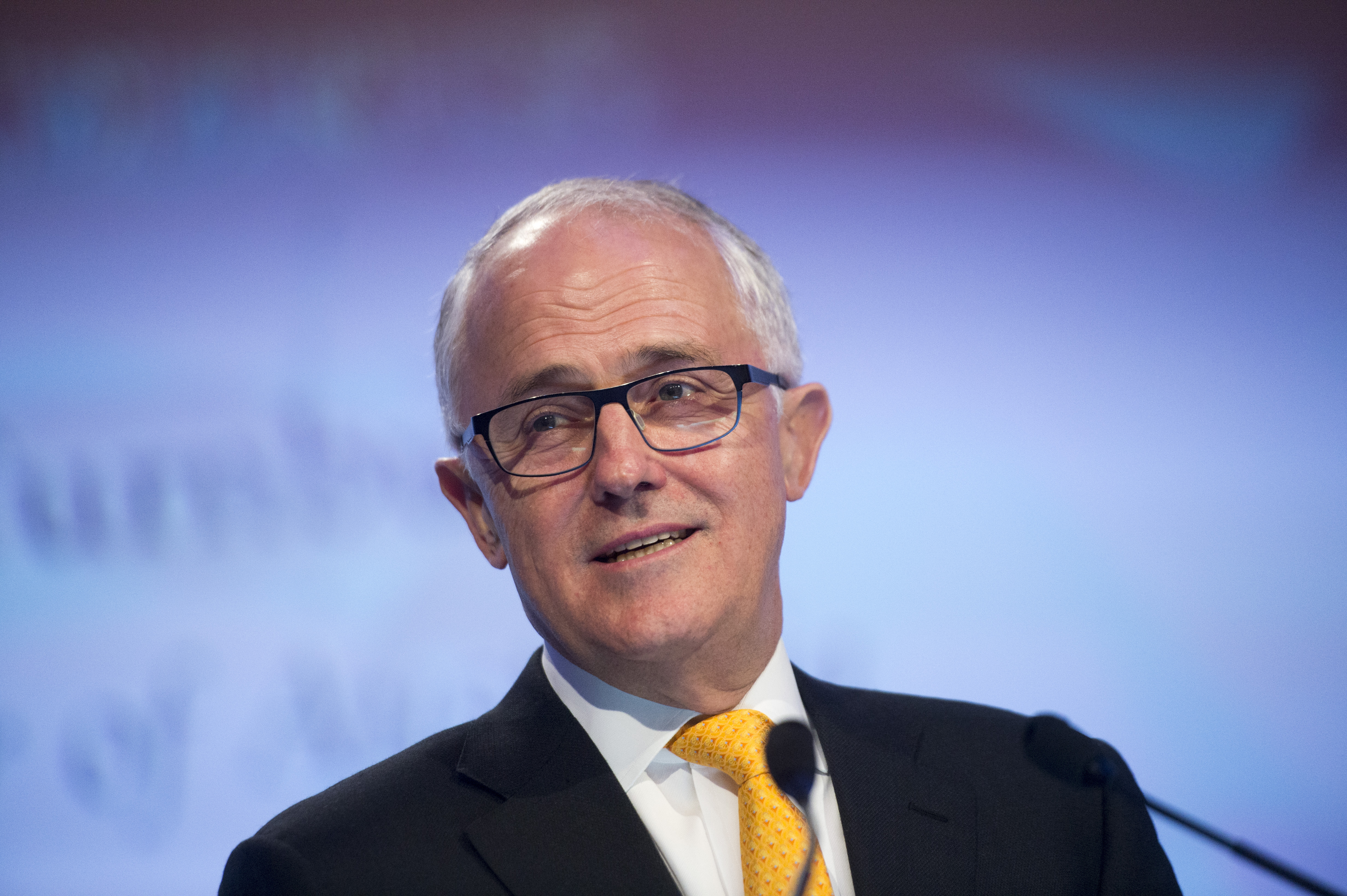 Australian Prime Minister Malcolm Turnbull delivers the key-note address to kick off the IISS Shangri-La Dialogue in Singapore June 2, 2017. (Dept. of Defense photo by Navy Petty Officer 2nd Class Dominique A. Pineiro/Released)